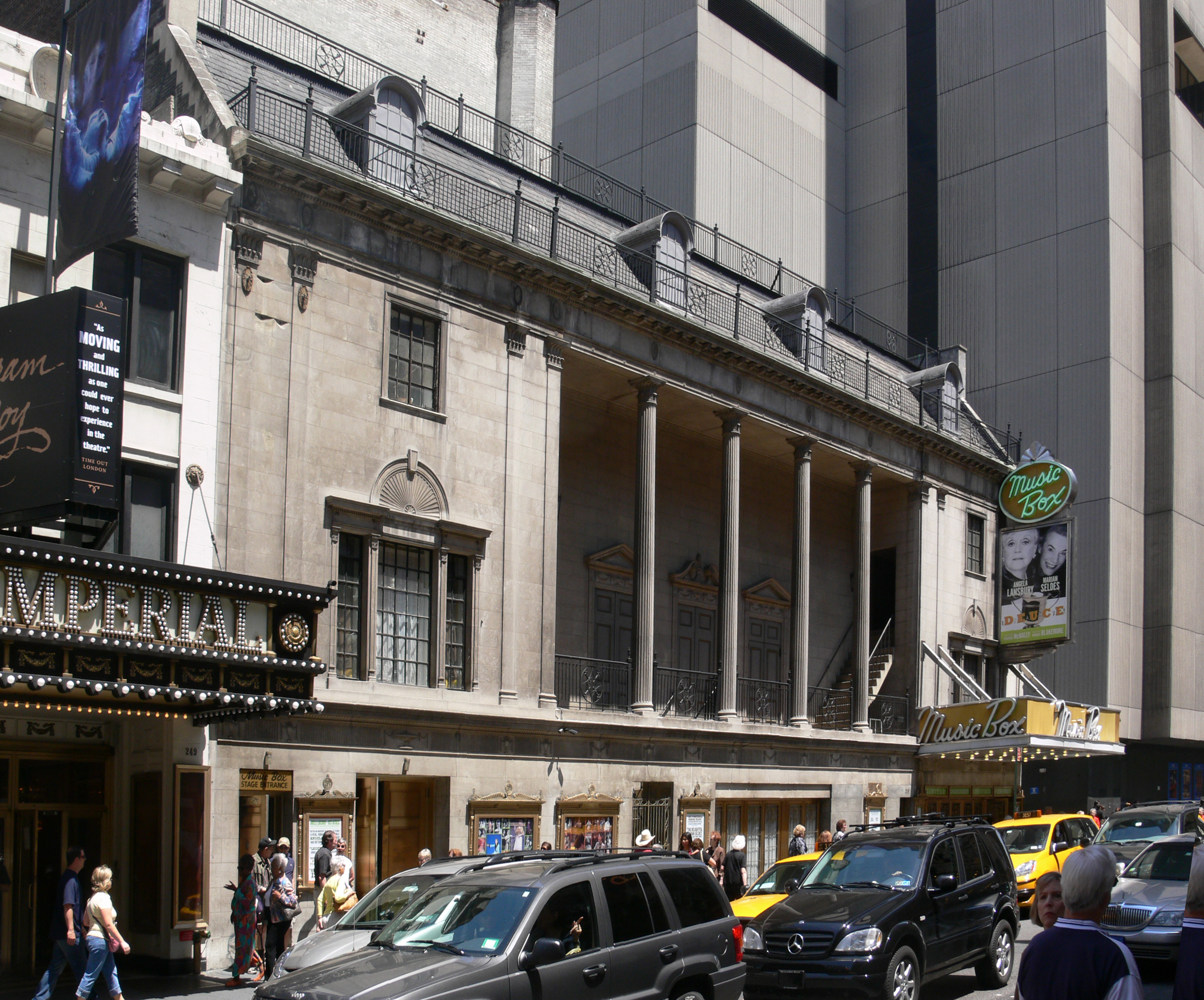 Music Box Theatre, showing Deuce 239 West 45th Street, Manhattan, New York City